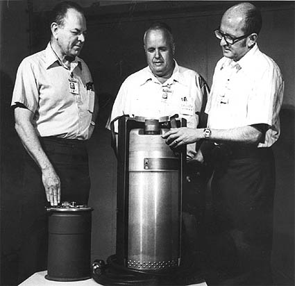 Image of a W45 Medium Atomic Demolition Munition (nuclear landmine) produced by the United States from 1965 to 1986. The W45/MADM was a tactical nuclear weapon with a destructive yield ranging from 1-15 kilotons. The entire unit weighed less than 400 lbs. The coder-decoder unit is at left. The W45 was the successor of the W31 (1960-65).